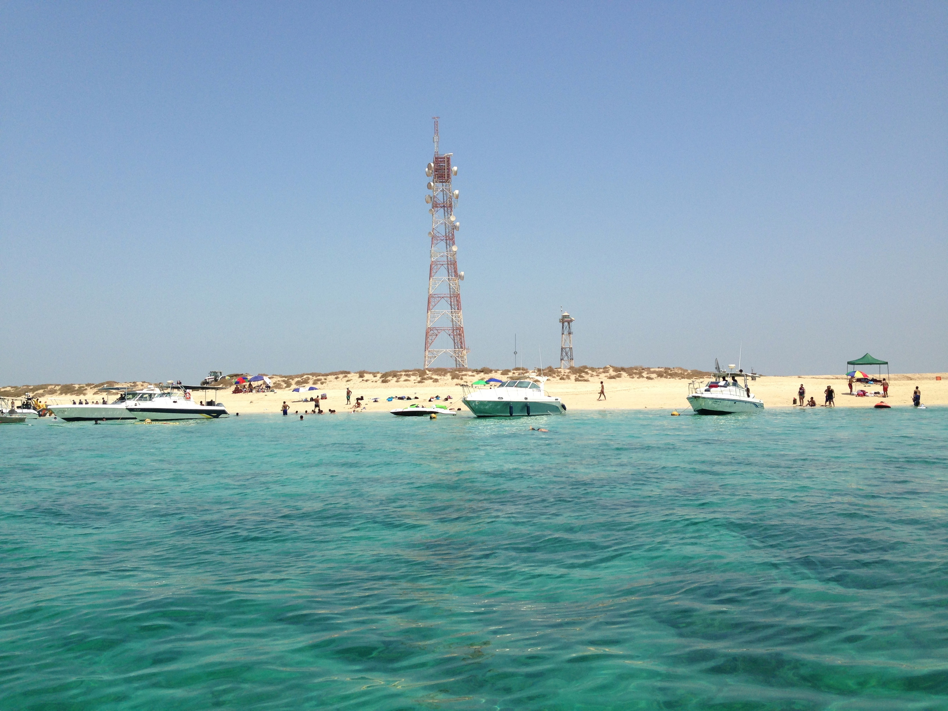 Kubbar Island in the summer